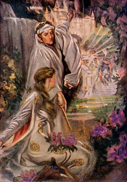 MERLIN AND VIVIEN - Illustration from Legends & Romances of Brittany by Lewis Spence, illustrated by W. Otway Cannell.